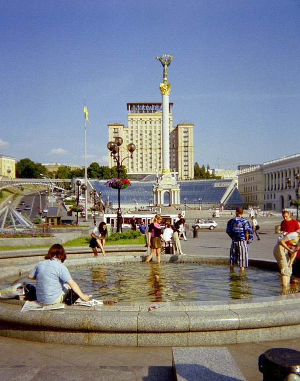 A Maidan Nezalezhnosti (Independence Square), Kyiv, Ukraine